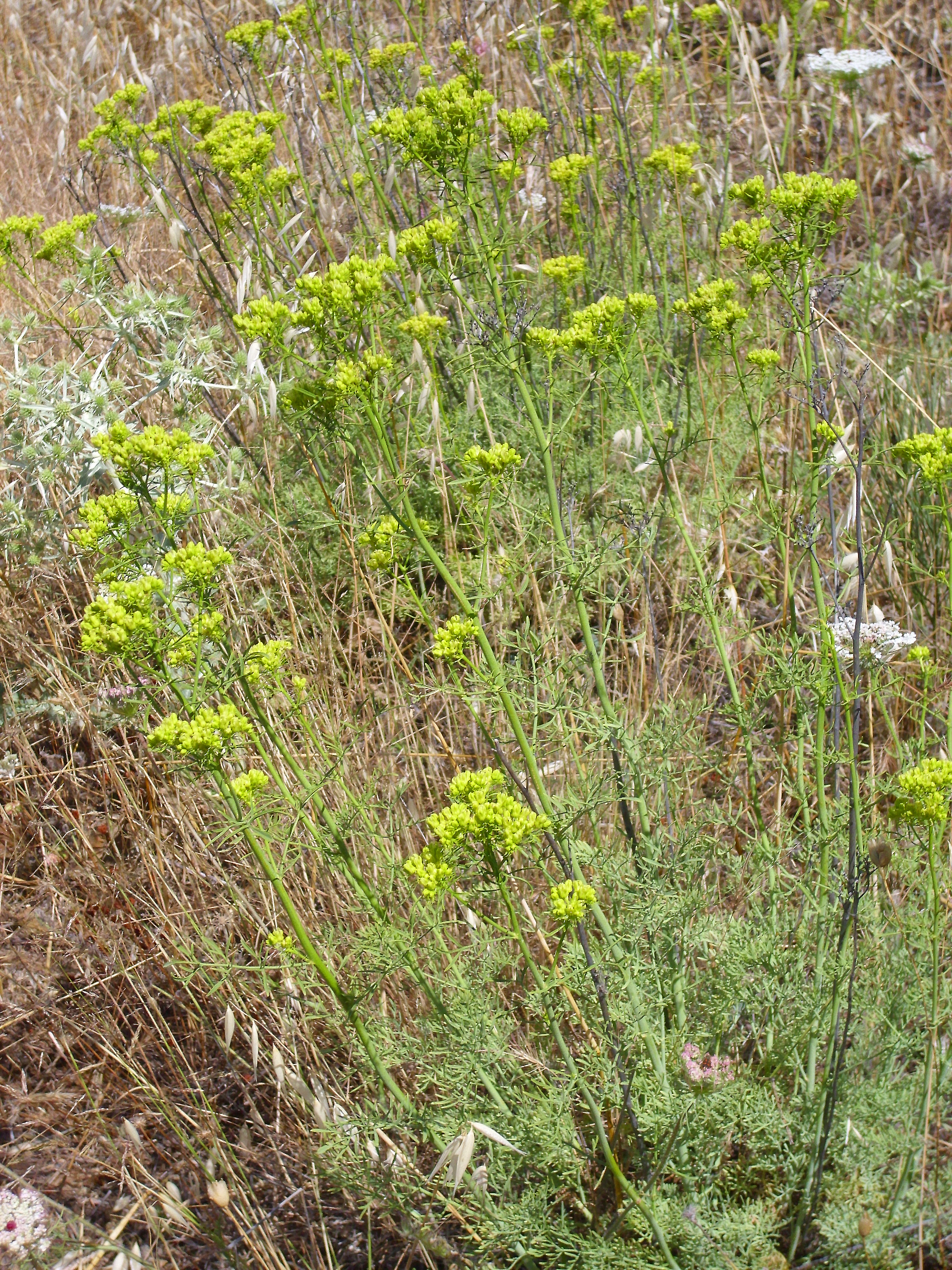 Ruta montana flowers close up, Dehesa Boyal de Puertollano, Spain